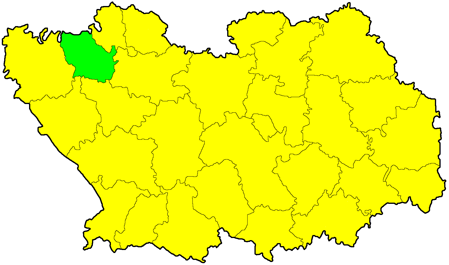 Vadinsky District, Penza Oblast, Russia